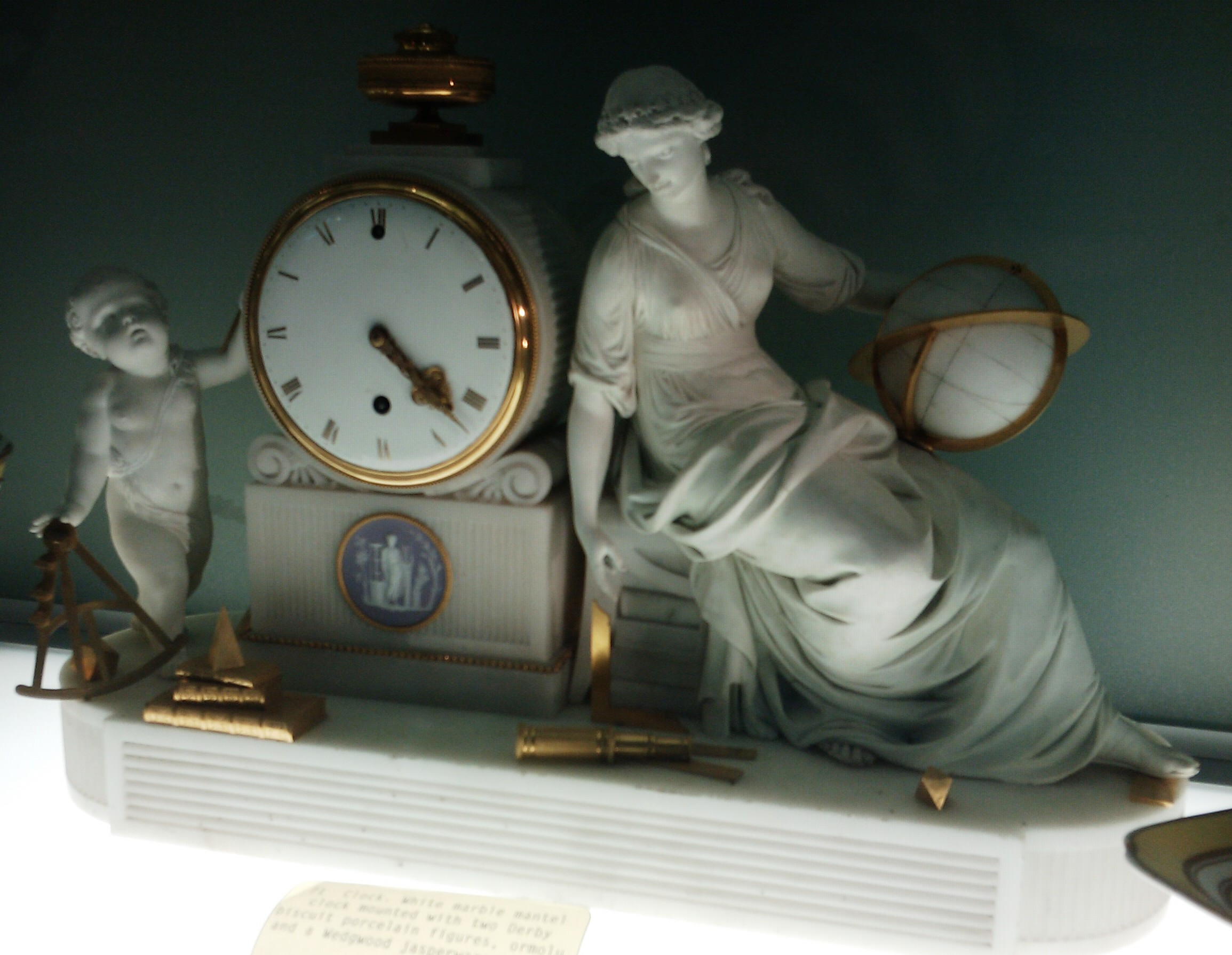 Mantel Clock by Benjamin Vulliamy that is now in Derby Museum